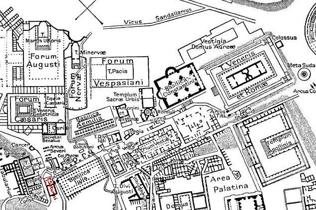 Detail of Image:Map_of_downtown_Rome_during_the_Roman_Empire_large.jpg with highlighted Templum Saturni.